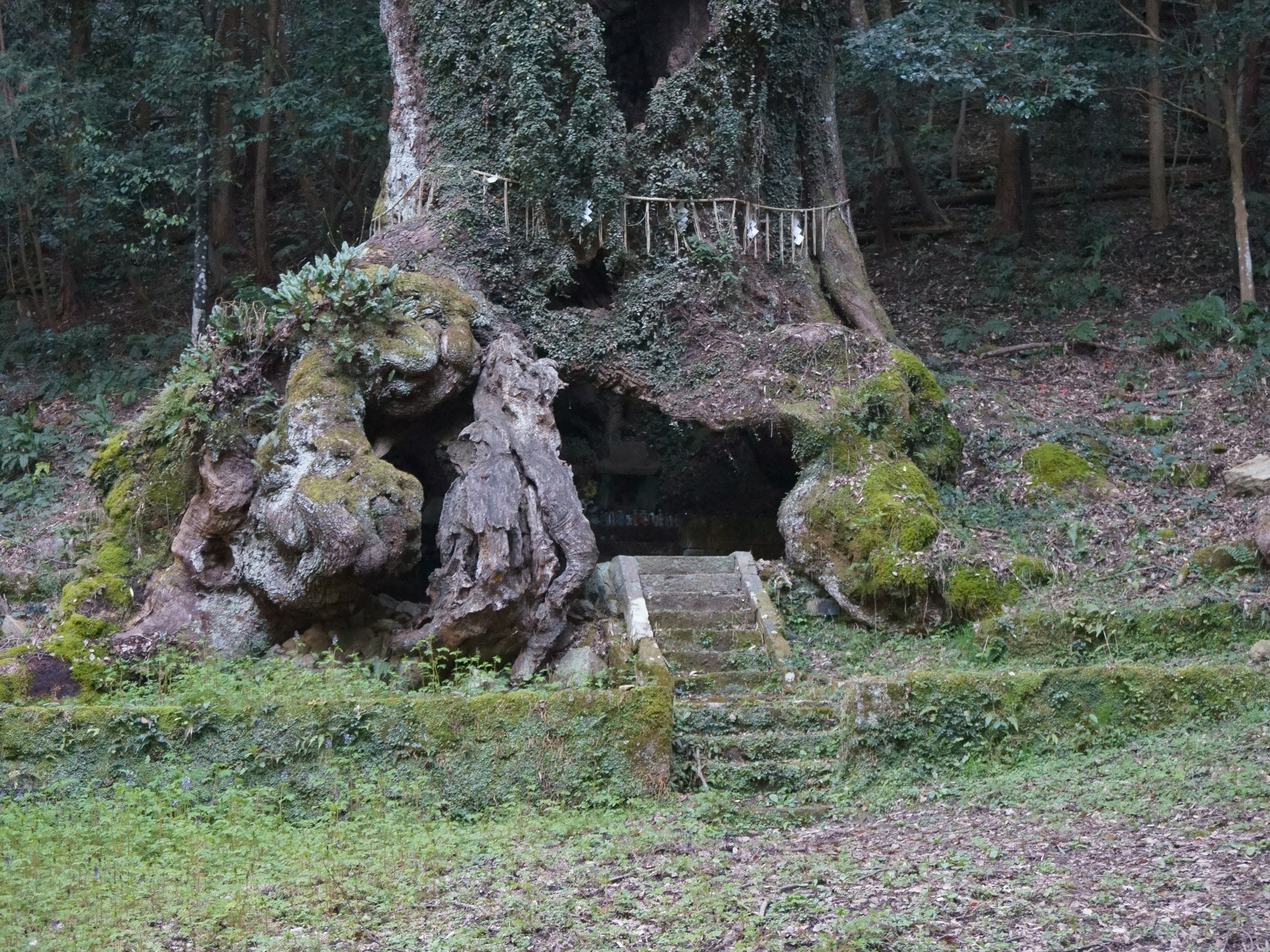 A 3,000 years old big camphor tree in Takeo(Takeo no Ōkusu), in Takeo city, Saga prefecture.